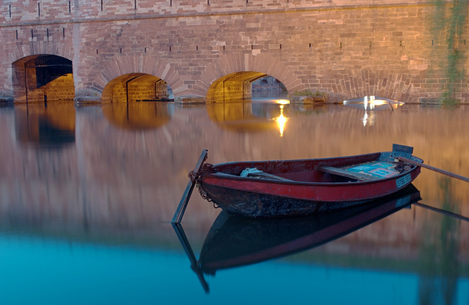 An old embarcation seen behind the panoramic plazza of the Vauban walk, in the petite france neighborhood, in Strasbourg.